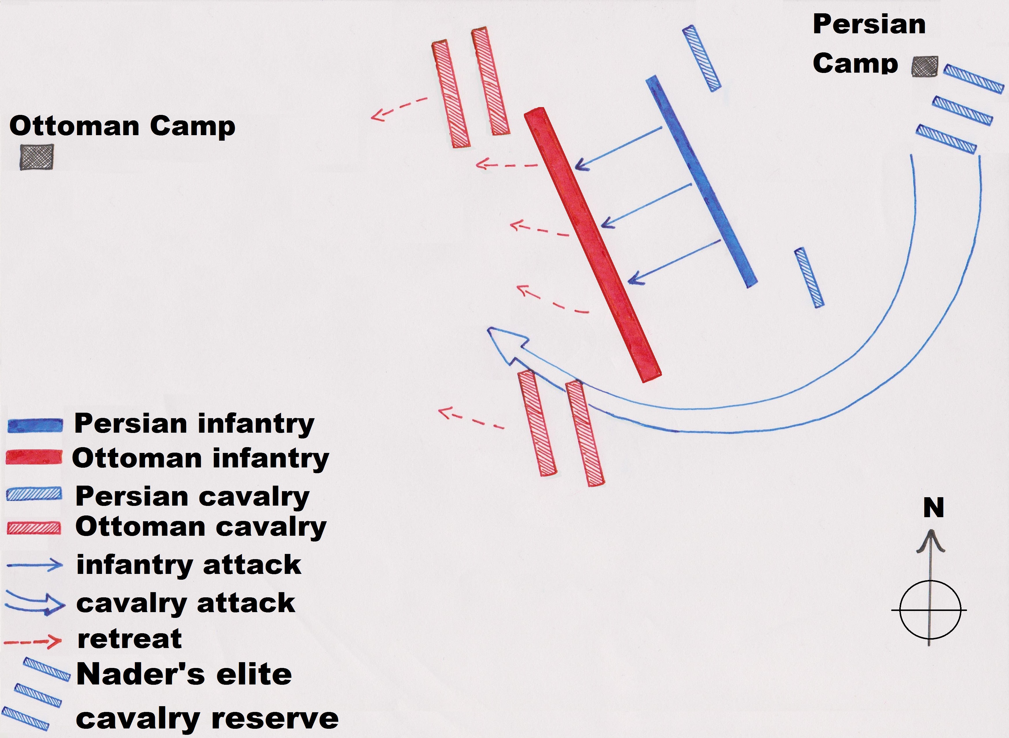 battle diagram